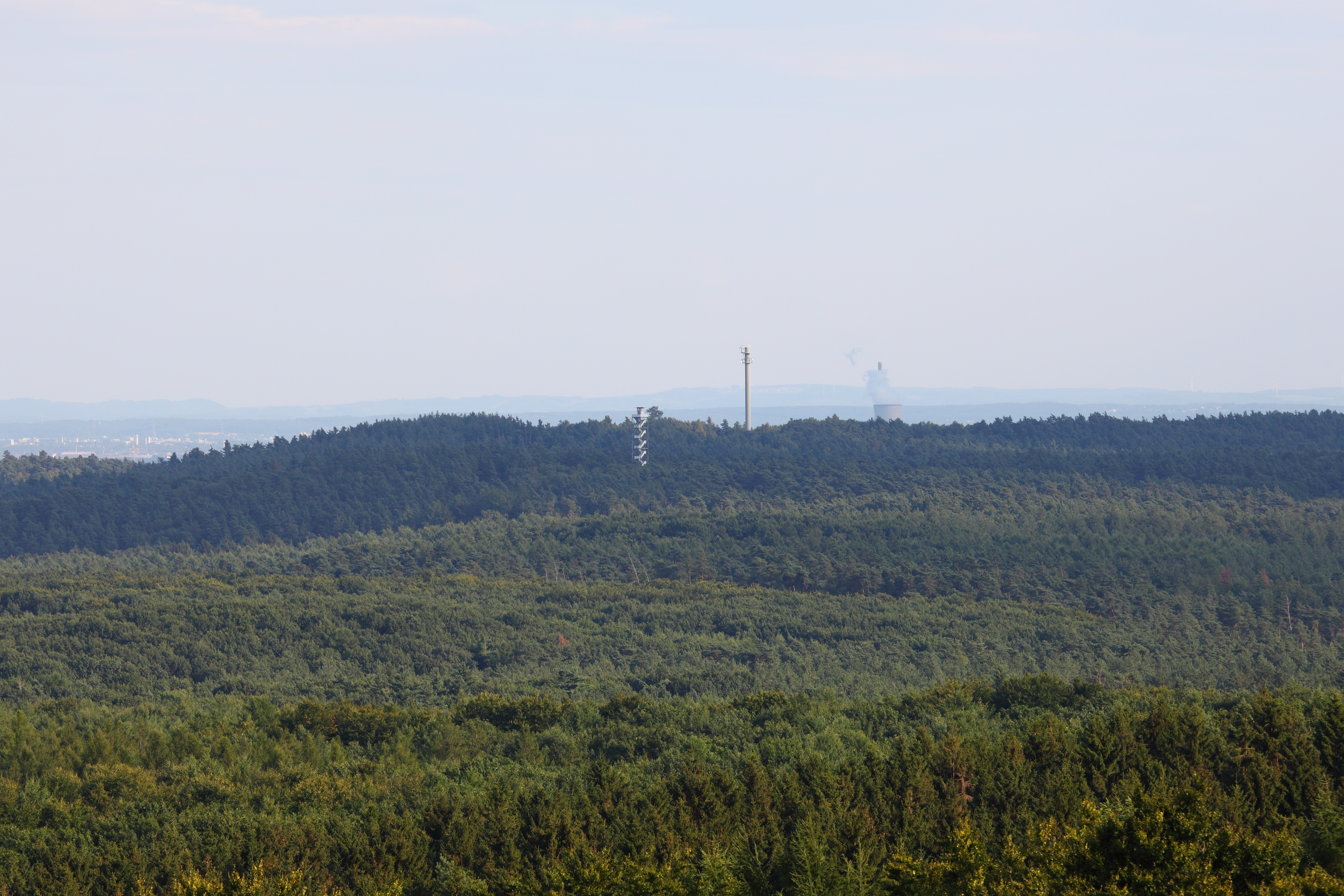 Stimberg near Oer-Erkenschwick in the Forest Haard